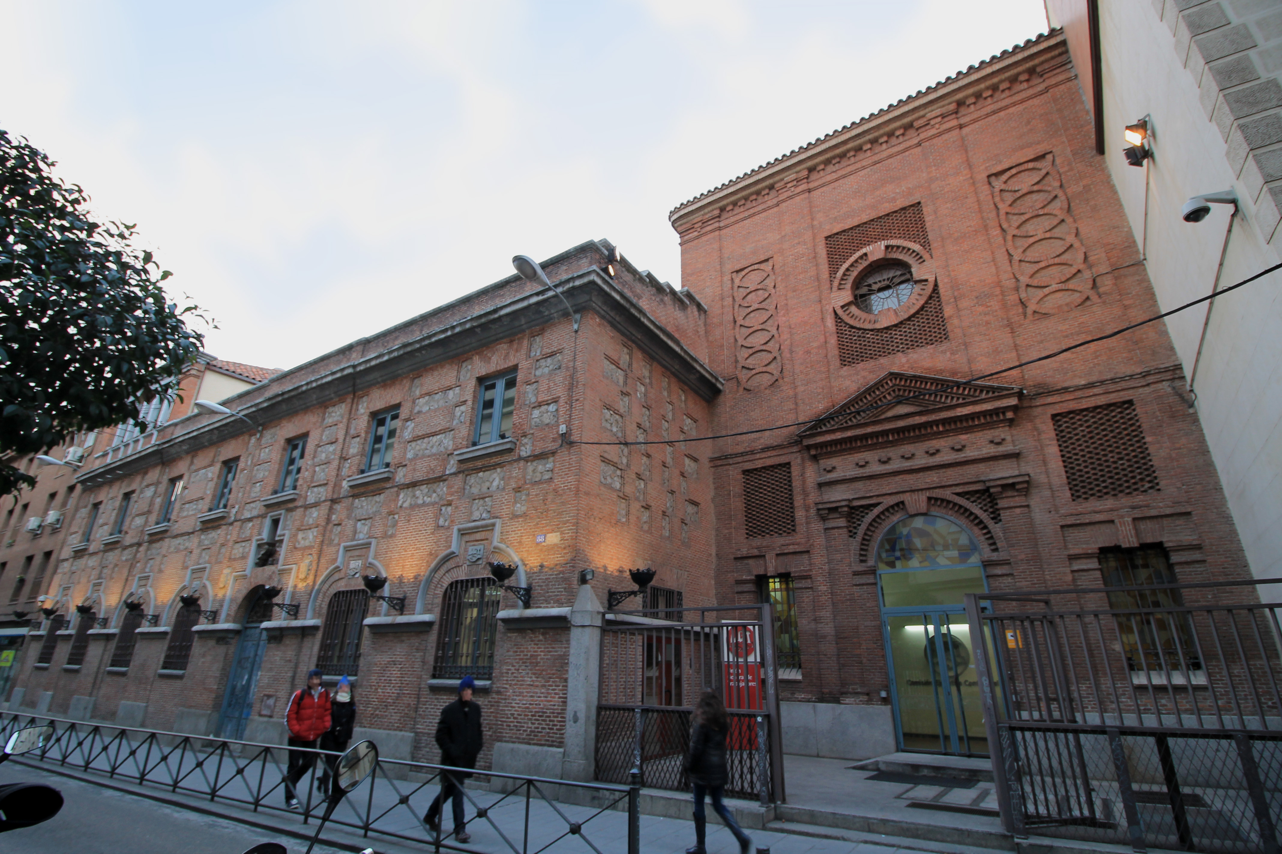 Façade of UGT headquarters, in Madrid (Spain).